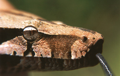 © Leonardo C. Fleck